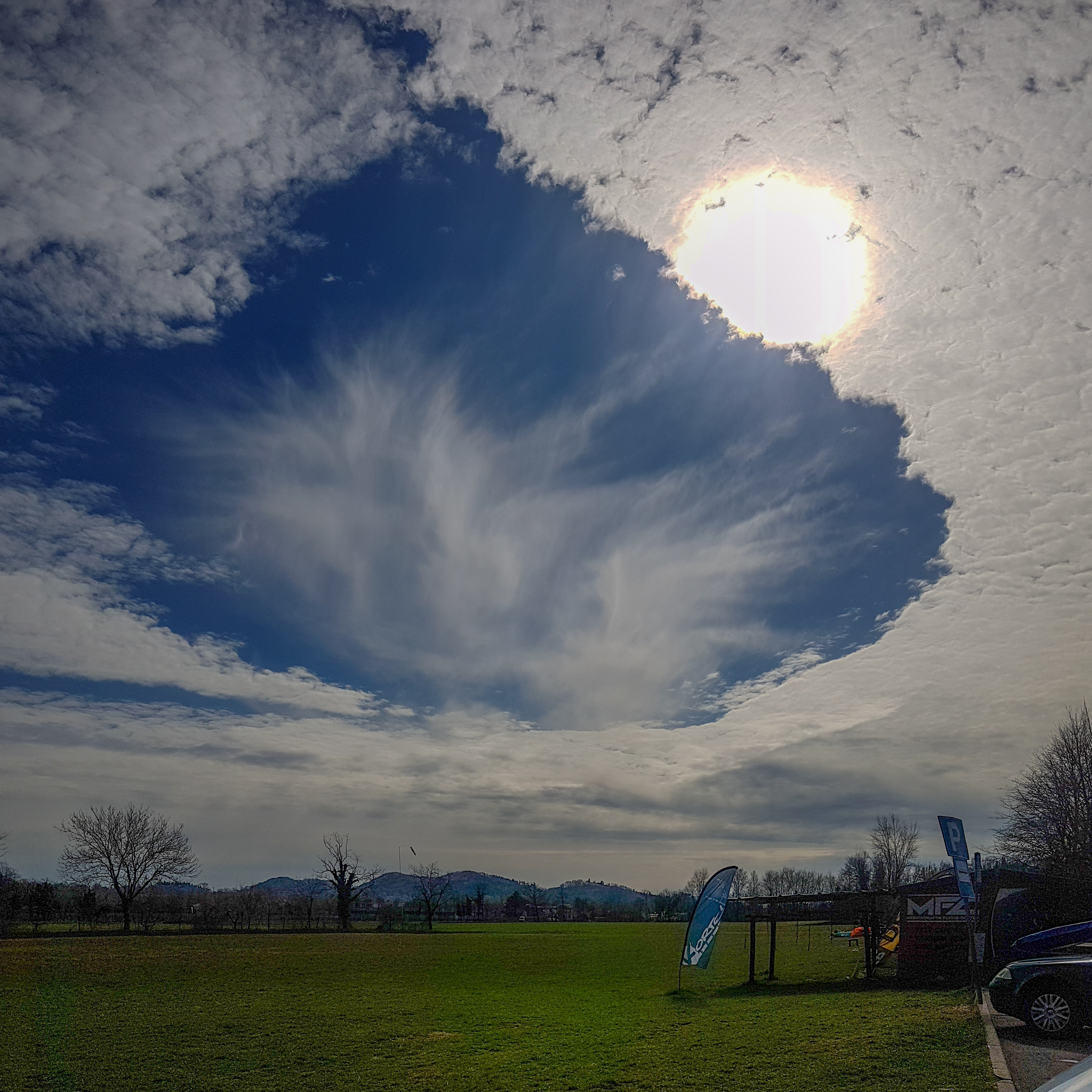 Fallstreak, Italy, Borso del Grappa, March 19th 2019 09:56